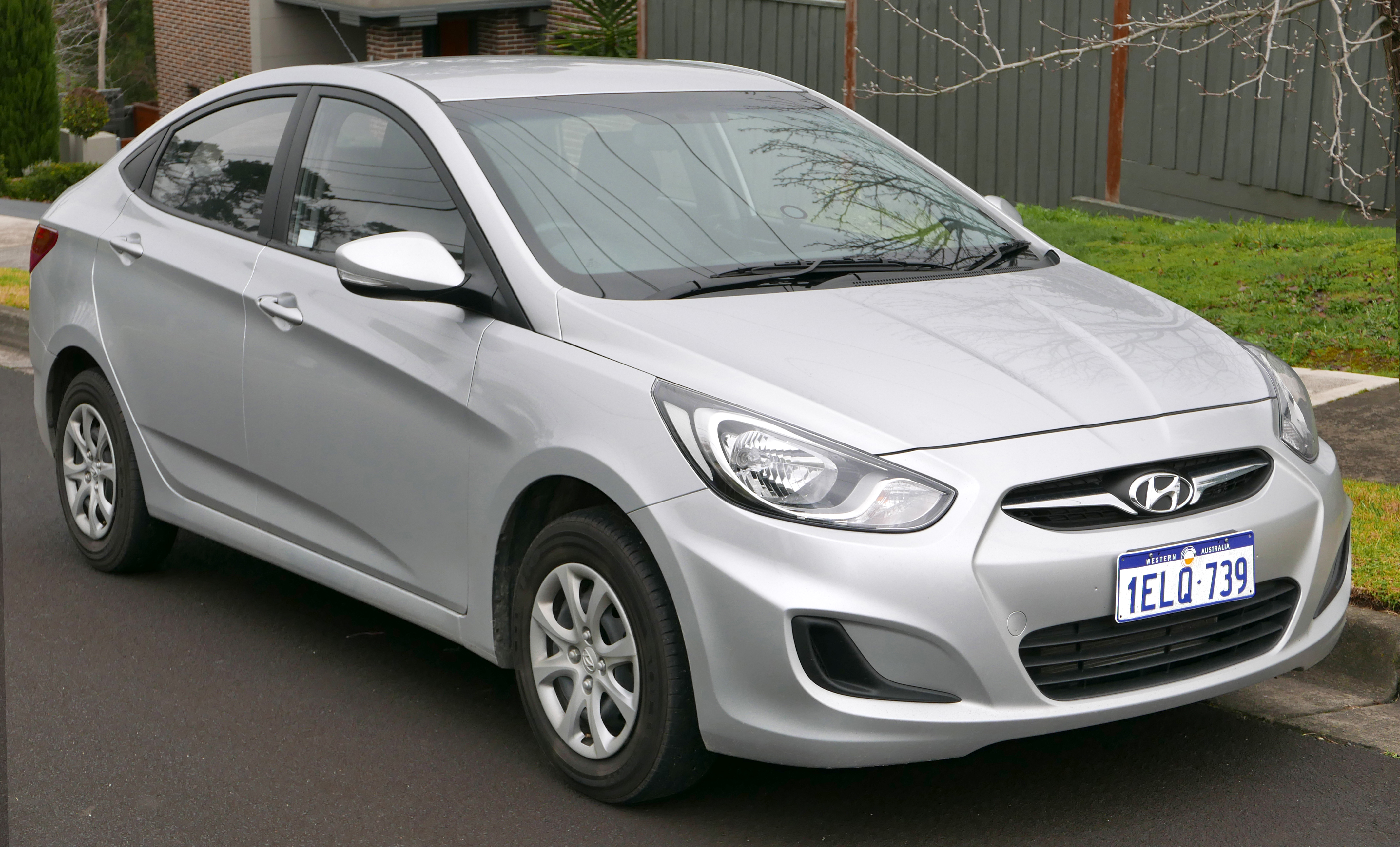 2014 Hyundai Accent (RB2 MY14) Active sedan. Photographed in Doncaster, Victoria, Australia.